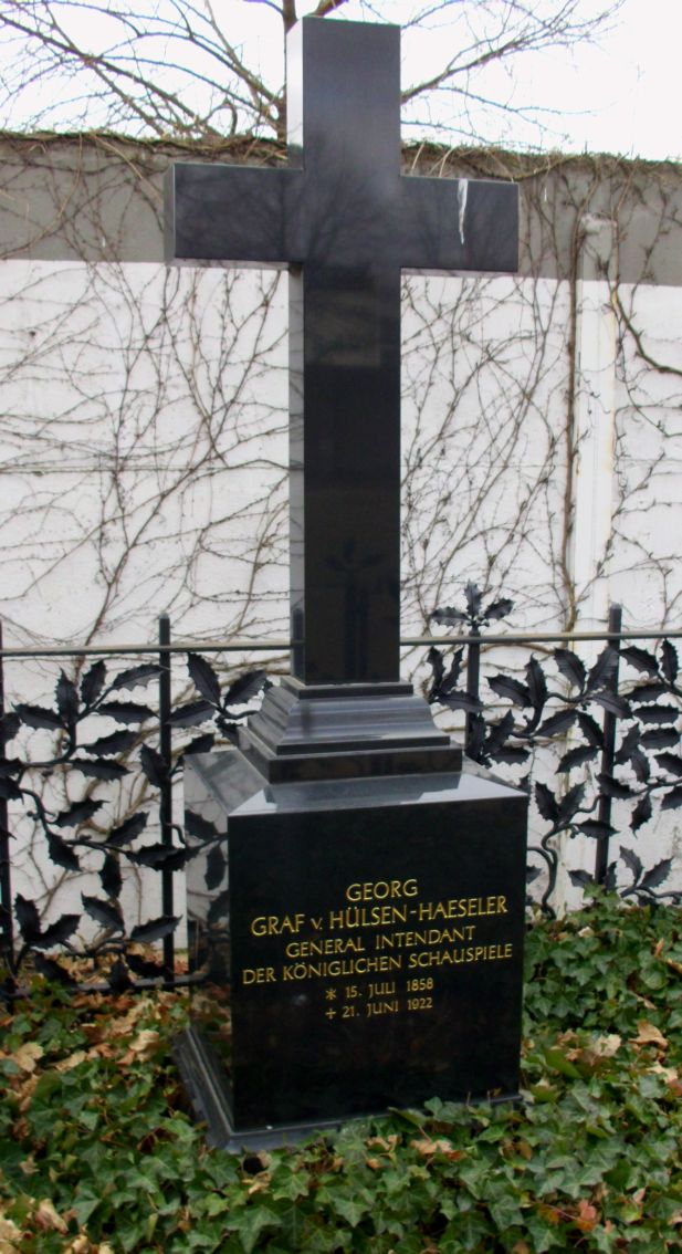 Grave of Georg von Hülsen-Haeseler